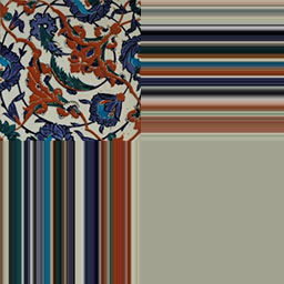 3D texture addressing mode: clamp. For use in Arabic Texture Addressing article on Wikipedia. Source tile is from an image from Wikimedia Commons, fully available for use by public domain.